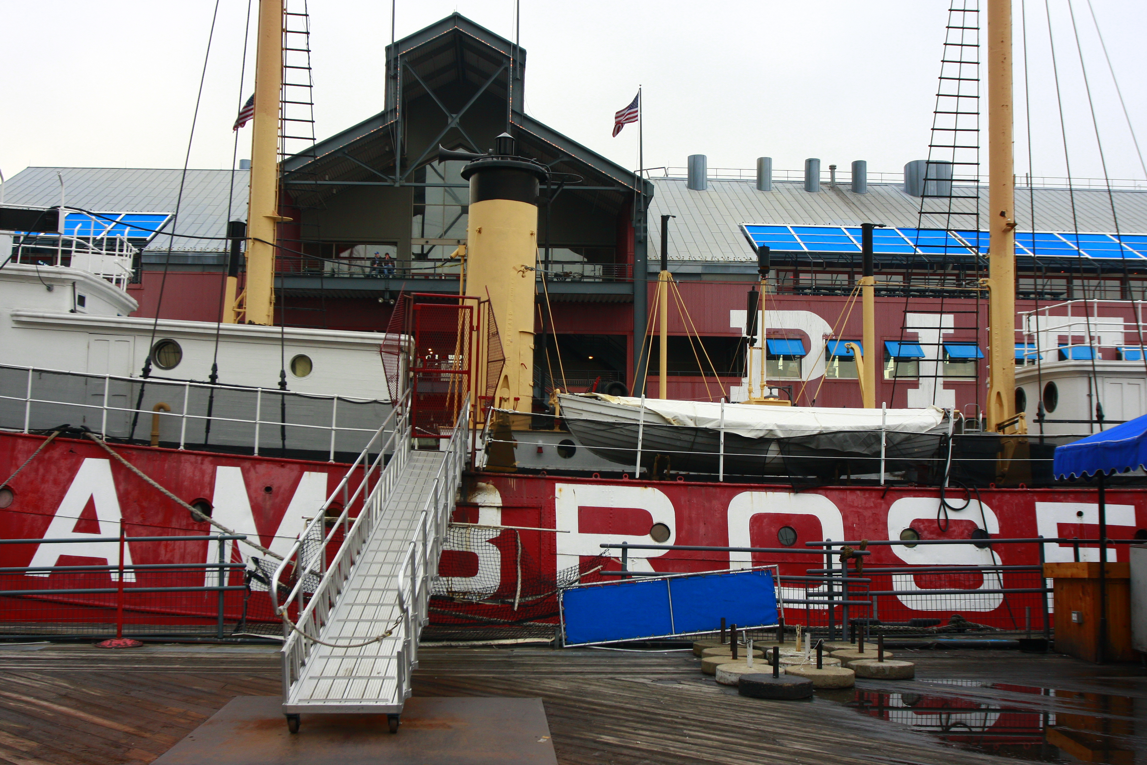 This photo is of Wikipedia Takes Manhattan location code 171, Lightship Ambrose.